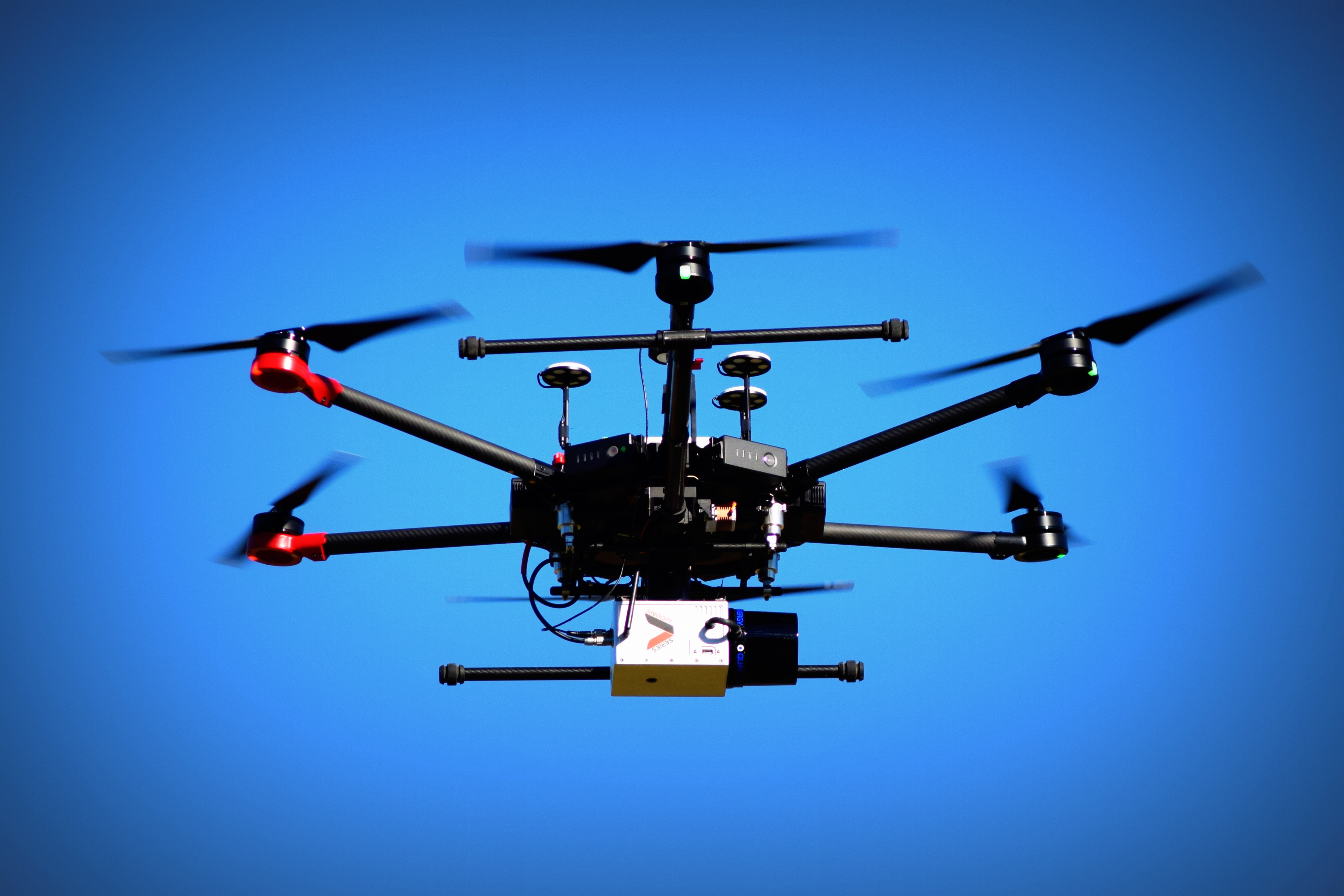 LiDARUSA SNoopy 120 LiDAR System mounted on the DJI Matrice 600pro